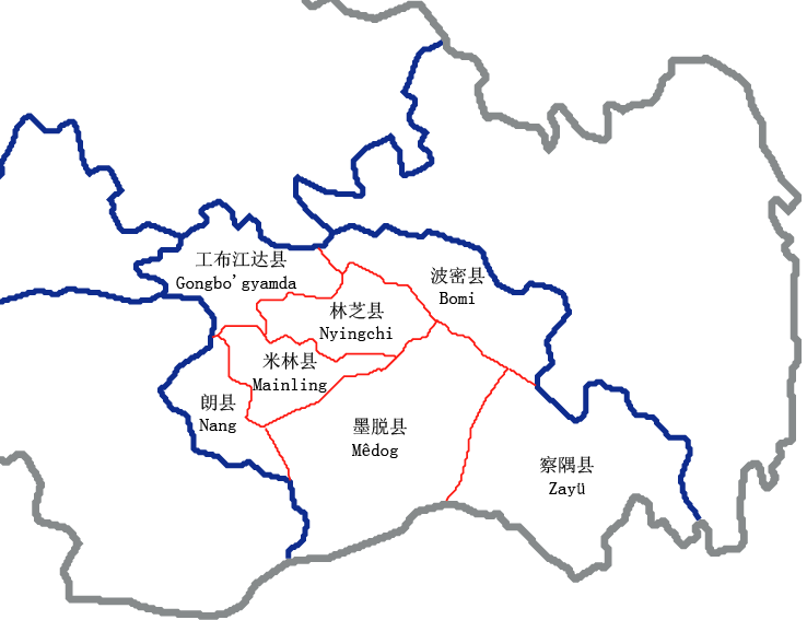 Counties in Nyingchi City (林芝市), Tibet Autonomous Region of China